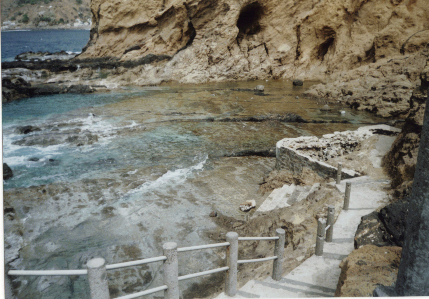 Natural swimming pool in Fajã de Agua, ilha Brava, Cabo Verde.